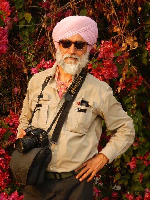 Mandip Singh Soin in Kaziranga National Park, Assam, India.